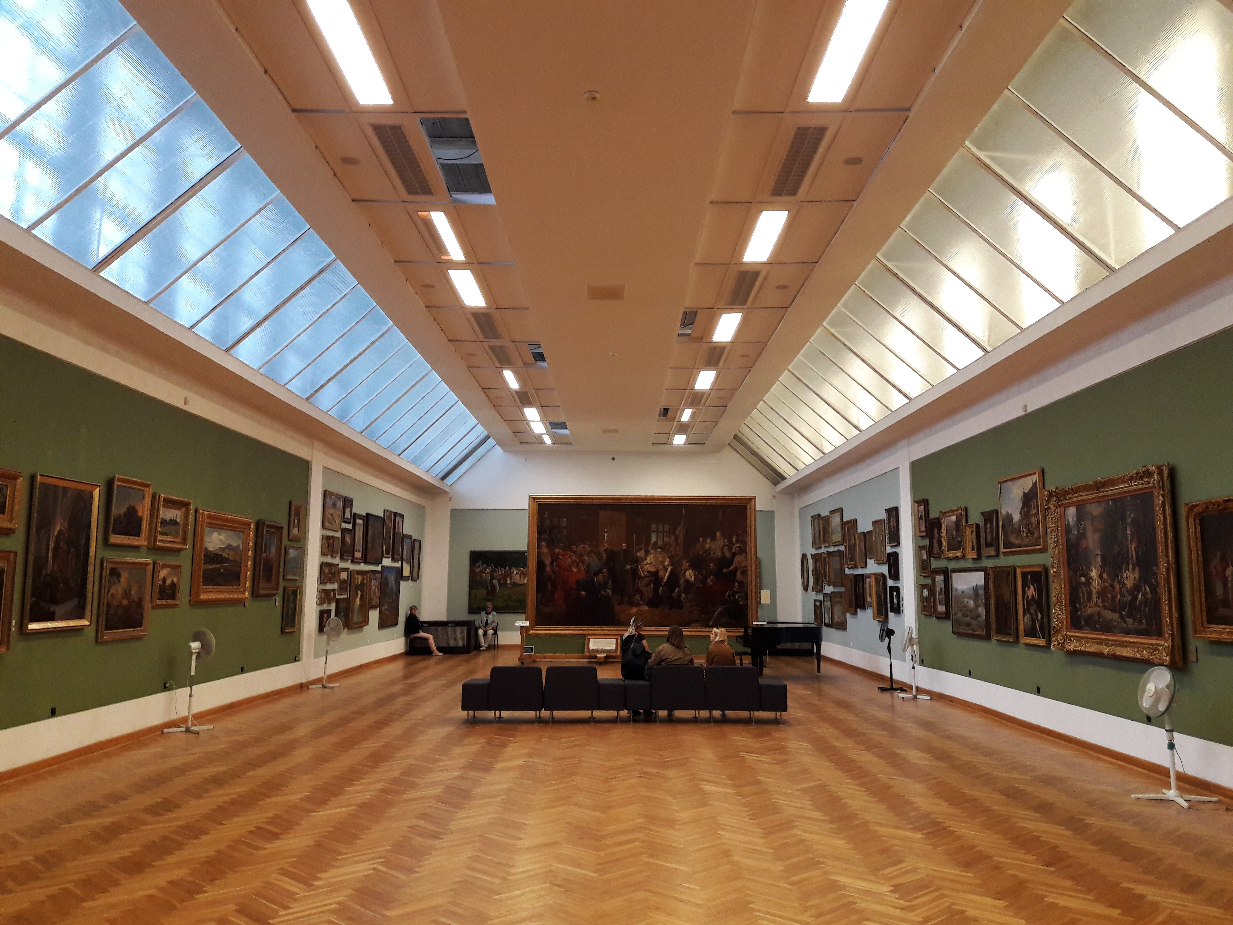 Interior of the Lublin Museum.